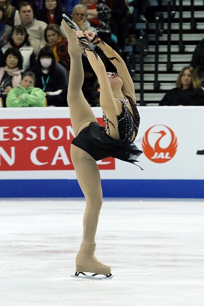 Amy LIN TPE in World Figure Skating Championships 2016 – 21st Place